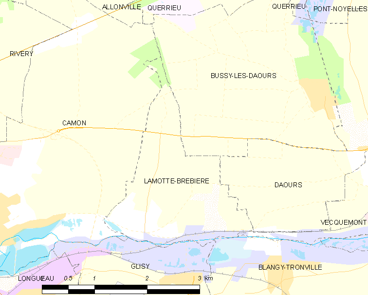 Map of French municipality Lamotte-Brebière